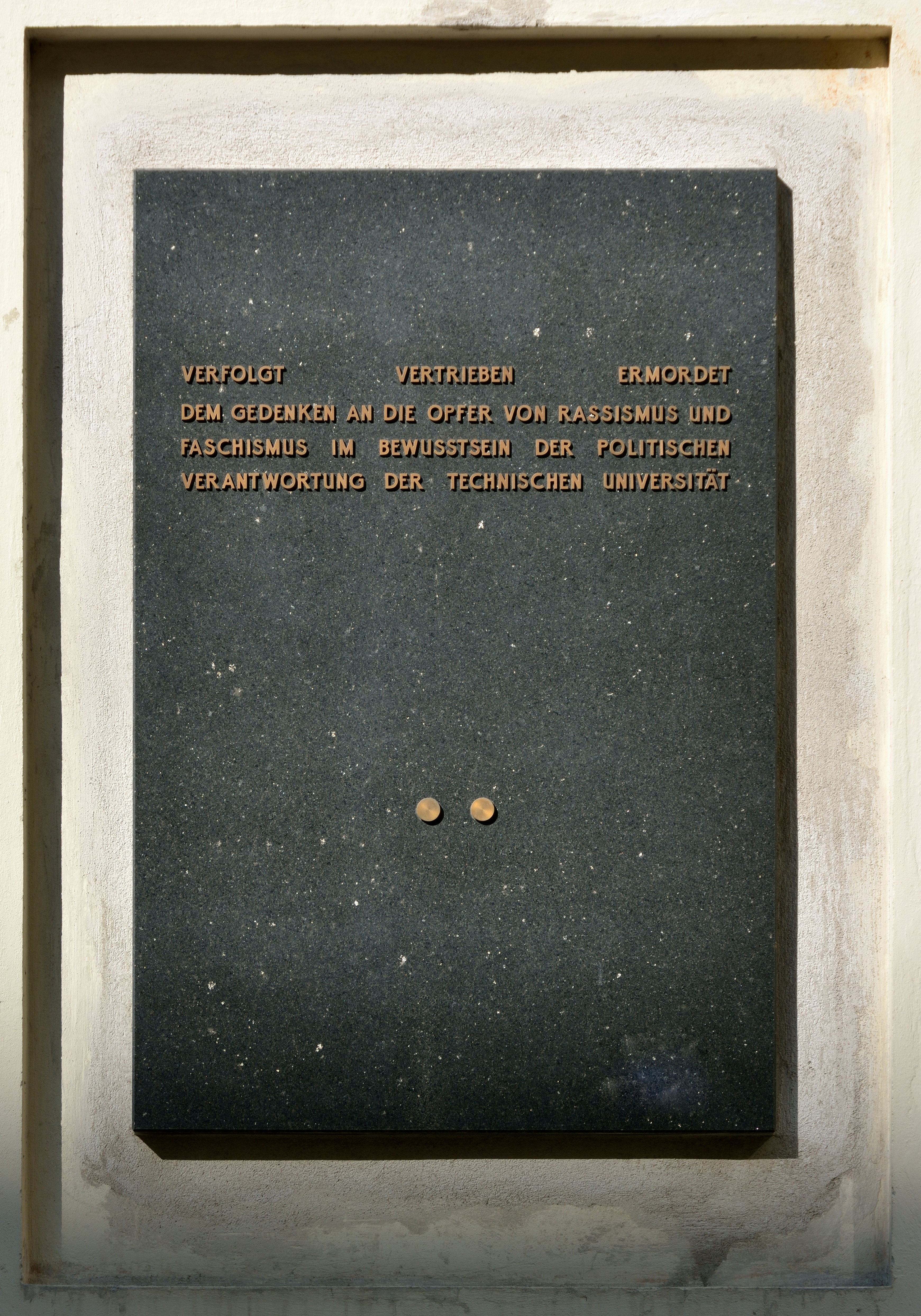 Plaque commemorating the victims of racism und fascism, courtyard of Vienna University of Technology, 4th district of Vienna